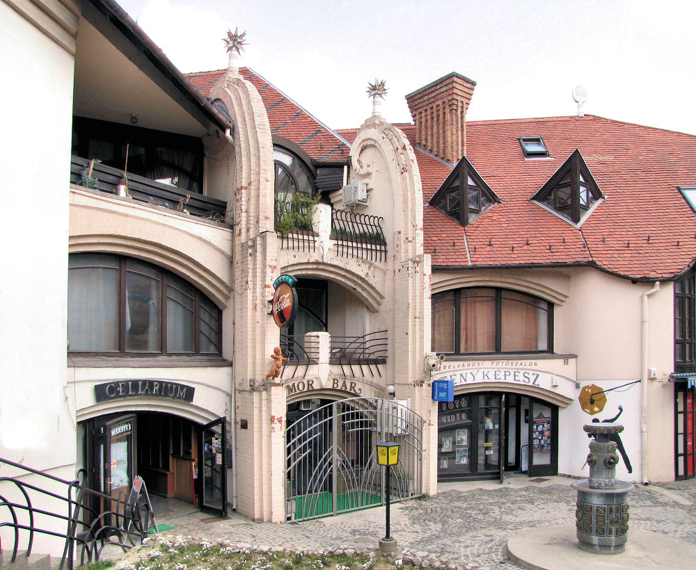 'Wedding House', Pécs, Hungary. Architect: Sándor Dévényi, 1983-85.